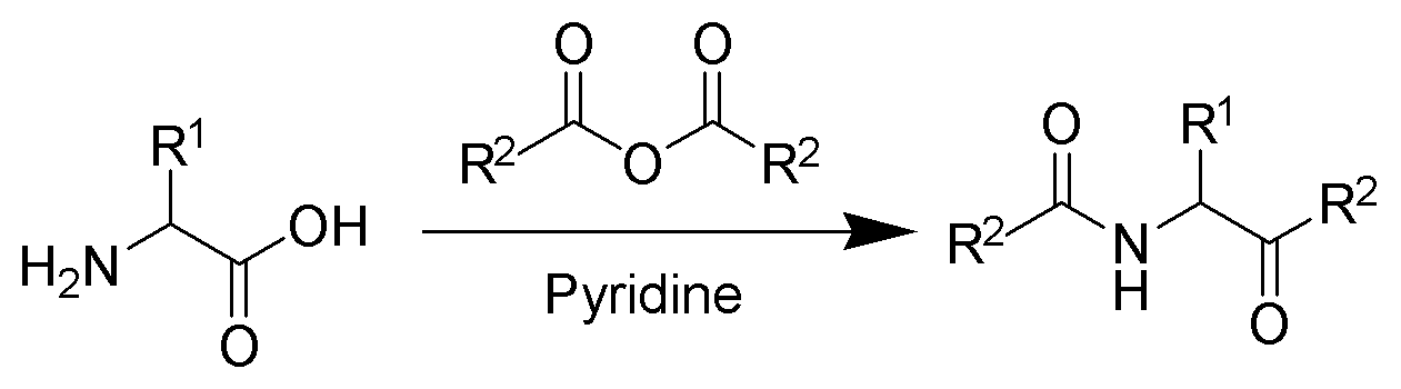 Description: The reaction scheme of the Dakin-West reaction. Author, date of creation: selfmade by ~K, 12 September 2005. Source: - Copyright: Public domain. (PD) Comments: high-resolution b/w PNG; ChemDraw / The GIMP.